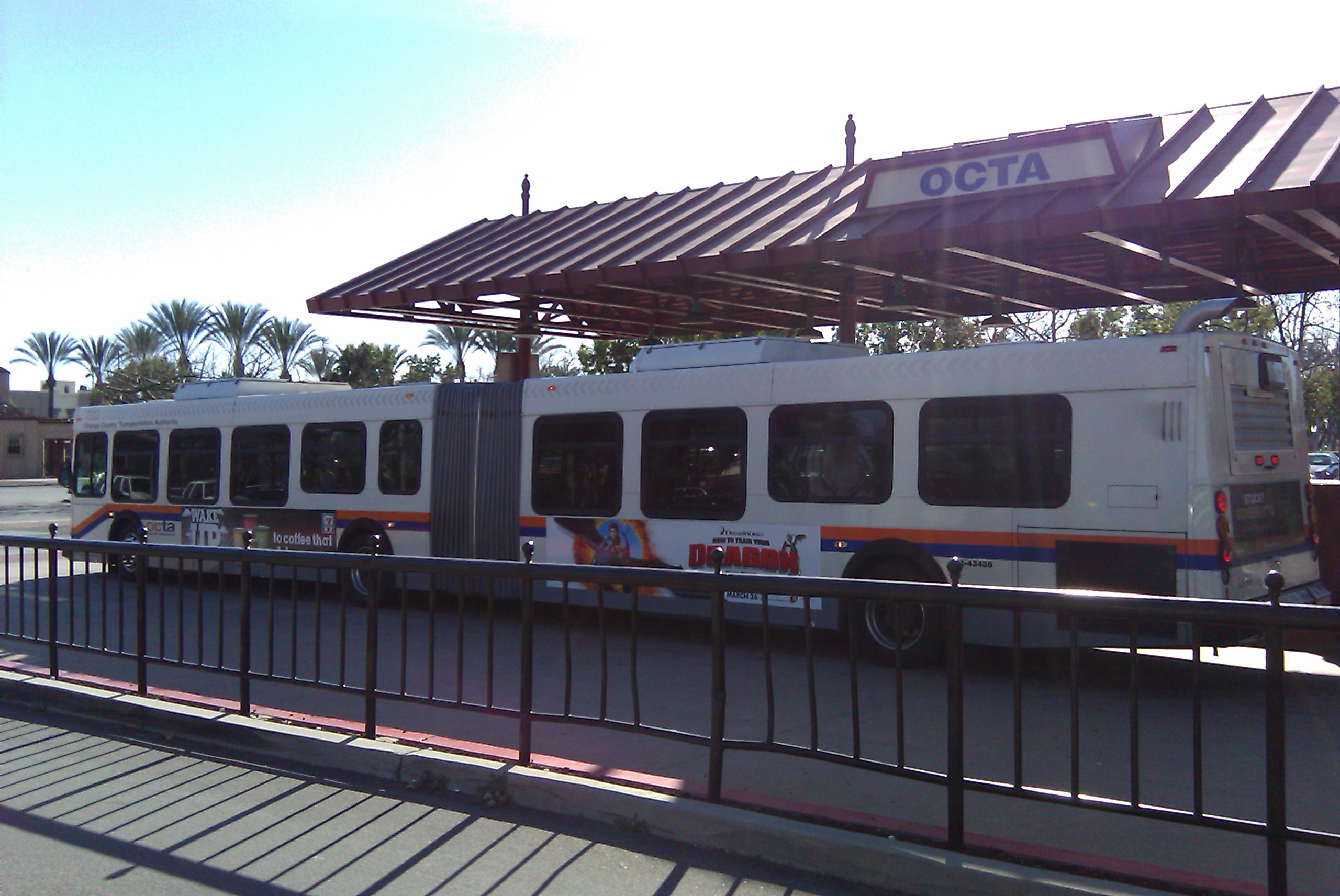 OCTA bus 43 at the Fullerton Transportation Center.